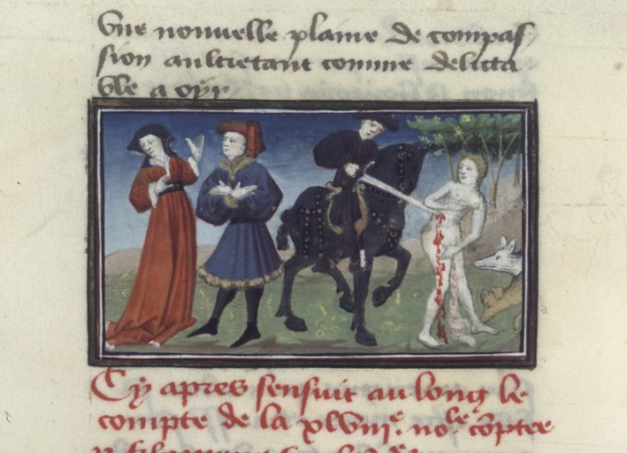 Boccaccio, Decameron, MS BNF Francais 239 f 159v